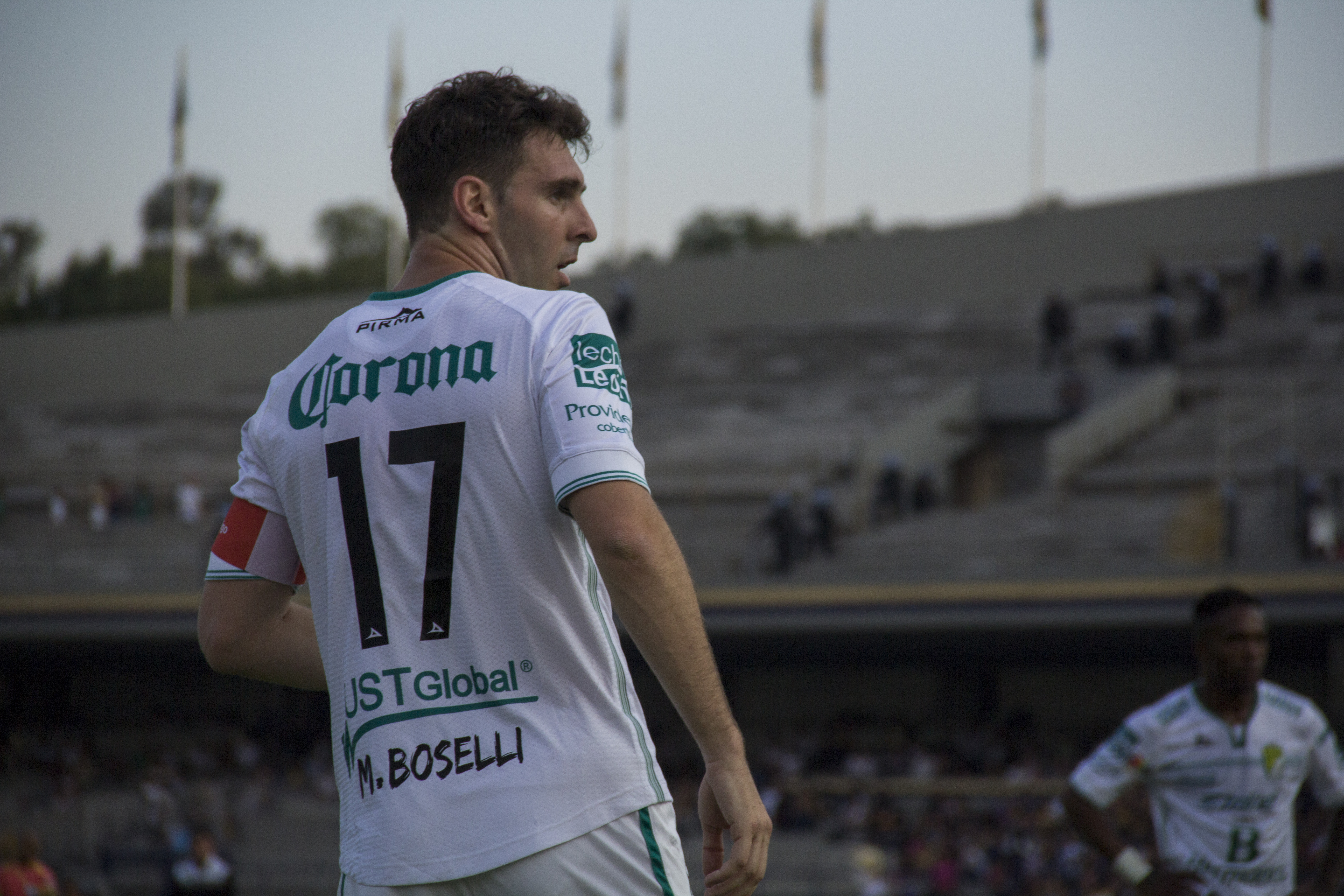 Mauro Boselli